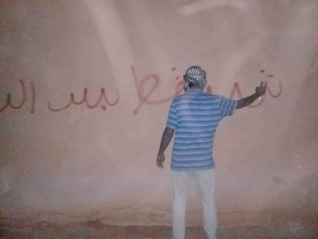 motto of sudanese revolution on a wall